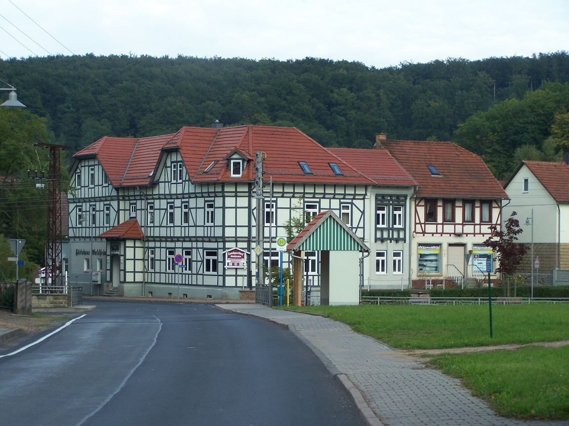 The guesthouse of Waldfriedeninn - in Unkeroda.